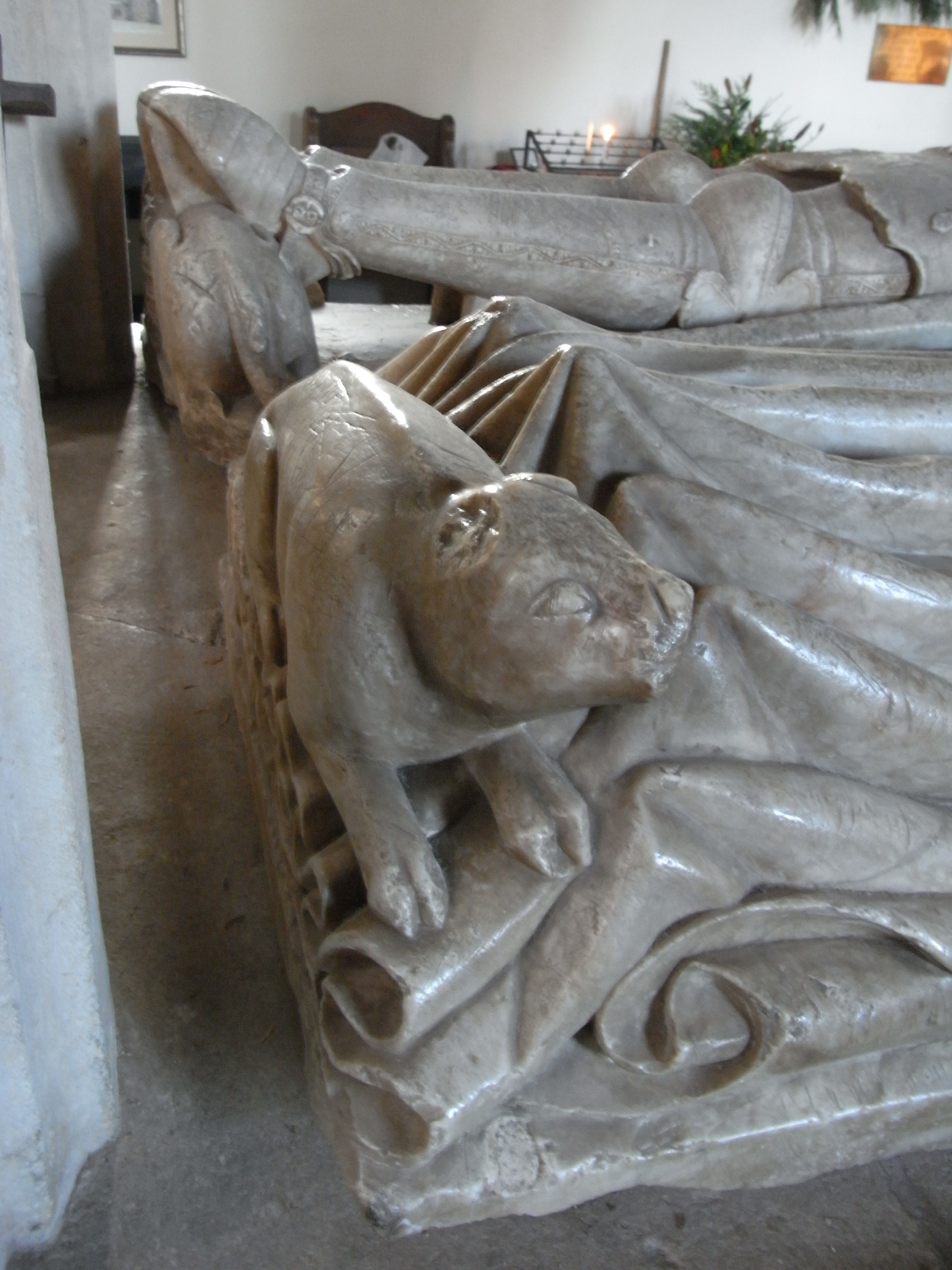 Footrest in form of boar, which animals were heraldic supporters of Courtenay Earls of Devon, under feet of alabaster effigy of Elizabeth Courtenay(d.1471), daughter of Edward de Courtenay, 3rd Earl of Devon(d.1419), Porlock Church.